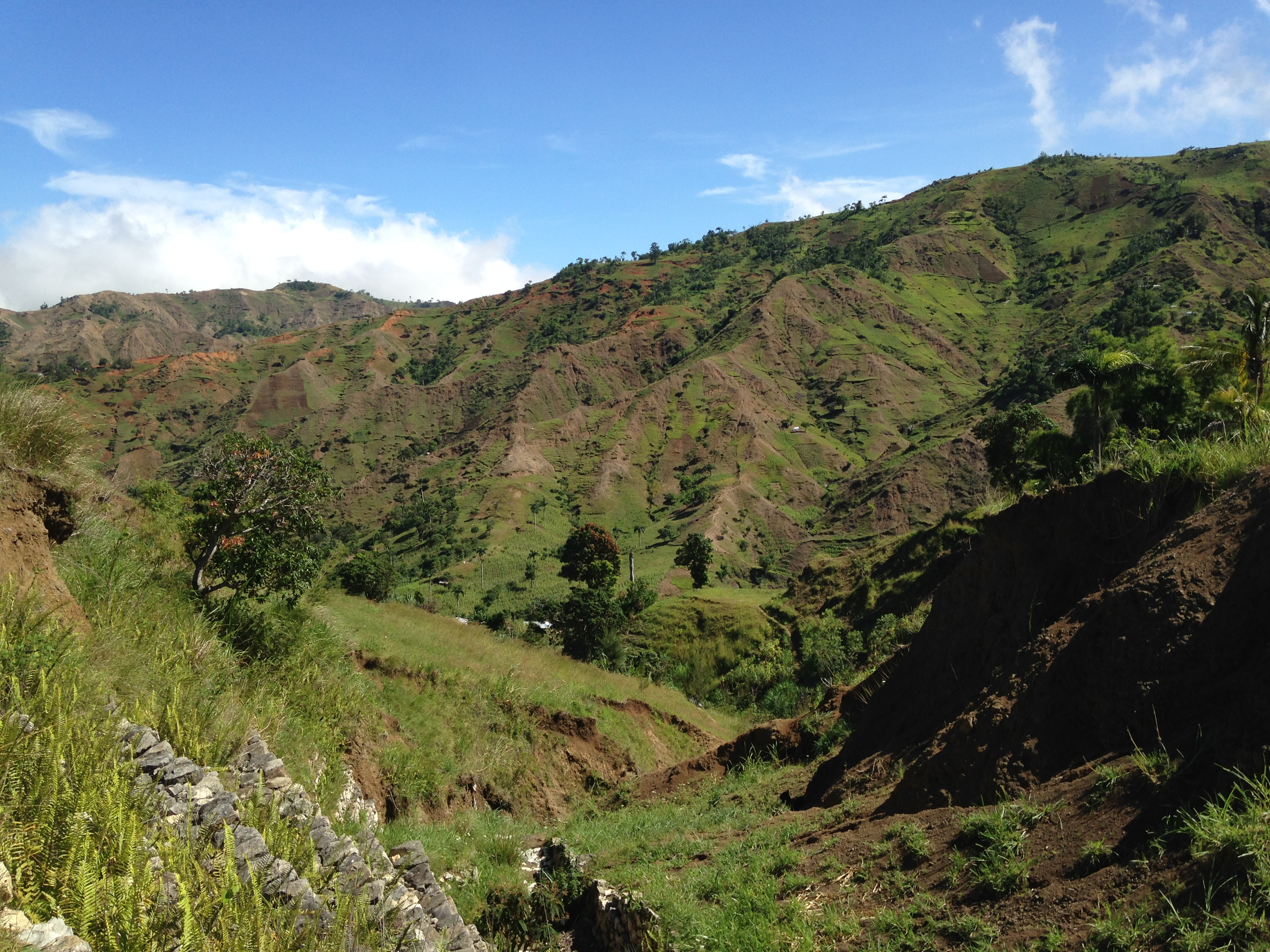 Landscape in Palmes in the municipality (commune) of Petit-Goâve in Haiti.